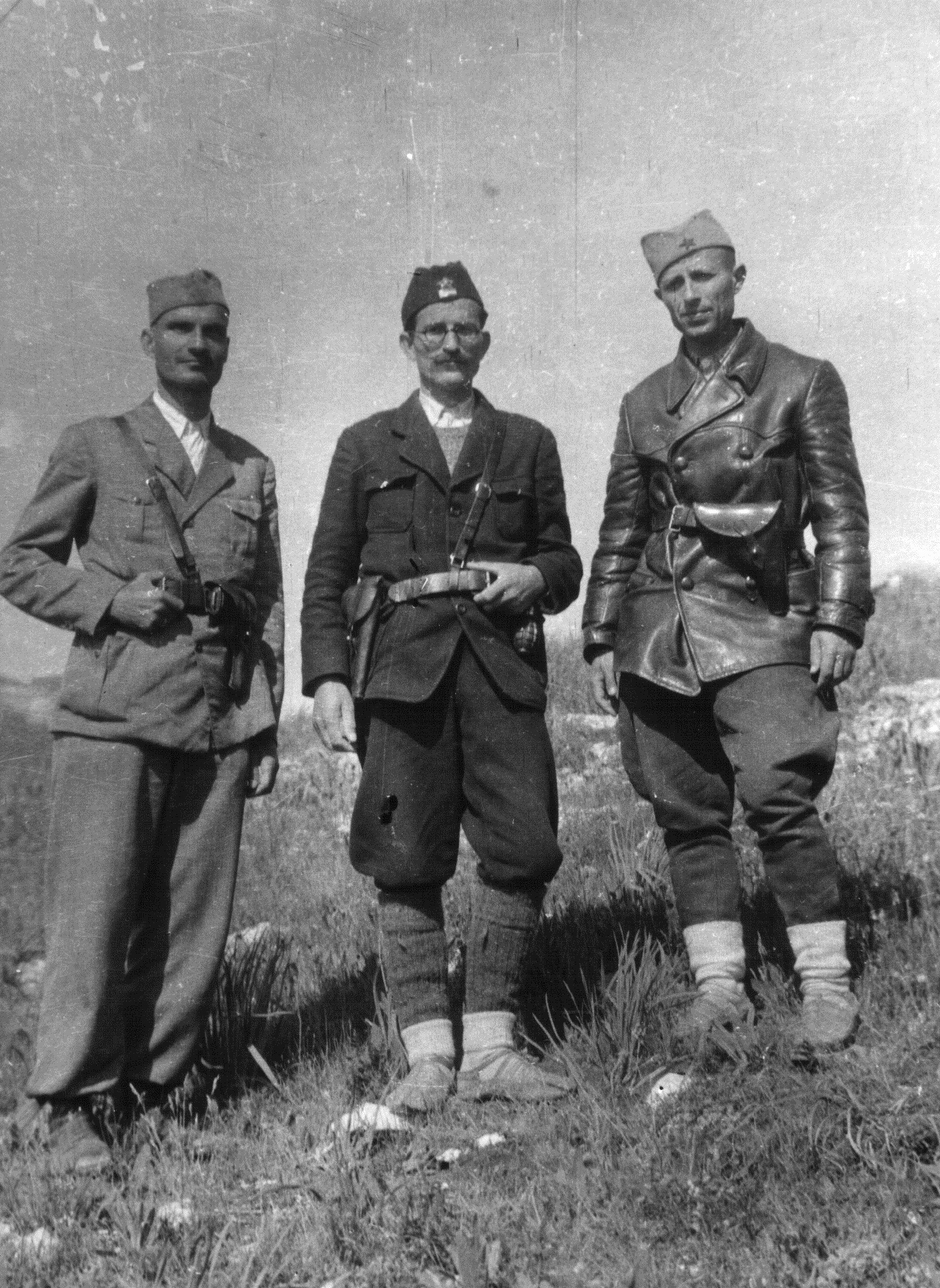 Arso Jovanović, Mitar Bakič and Ivan Milutinović in Zaborje.